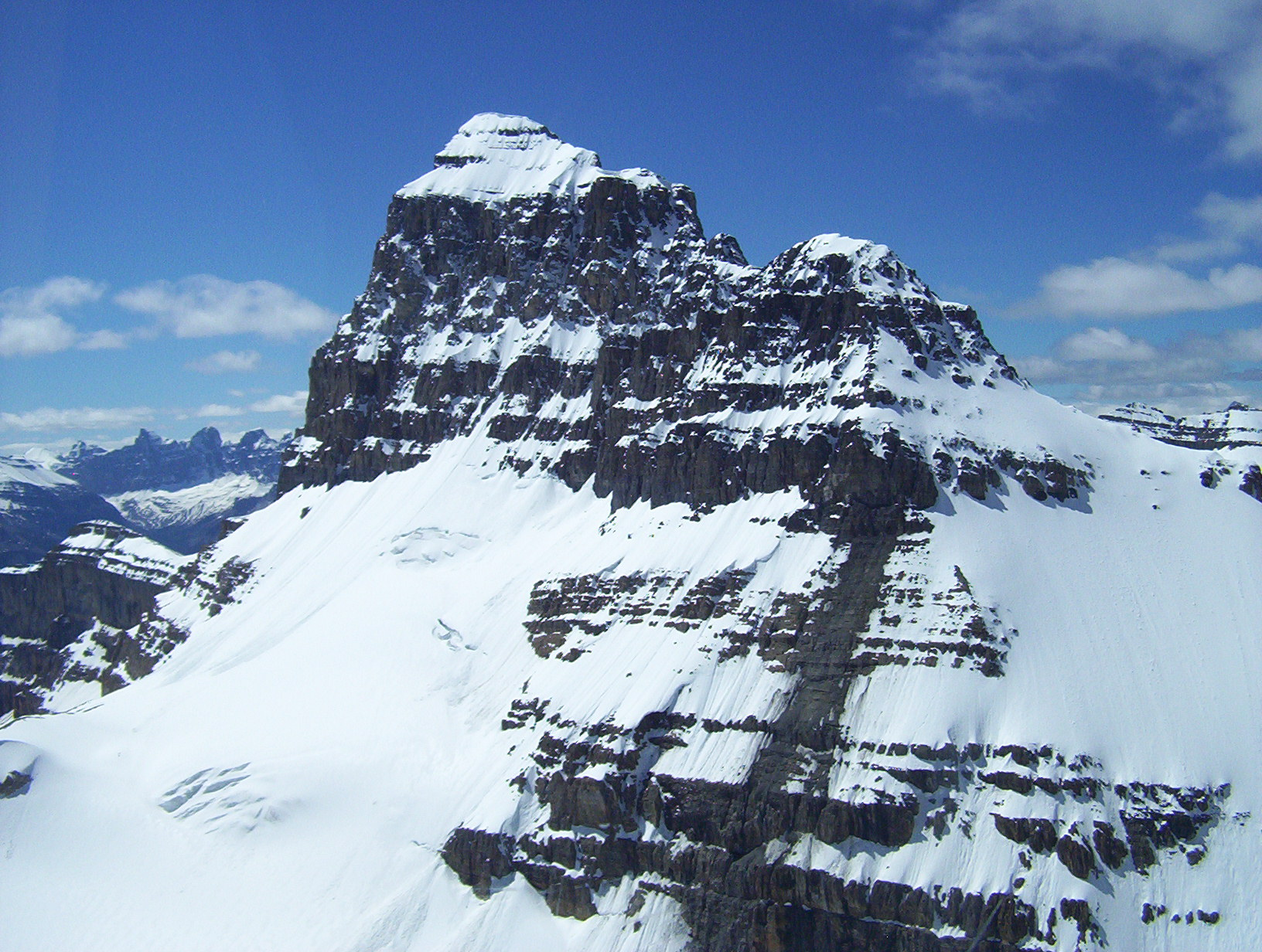 Mount Cline, Alberta, Canada. Mountain peak in the Canadian Rockies.